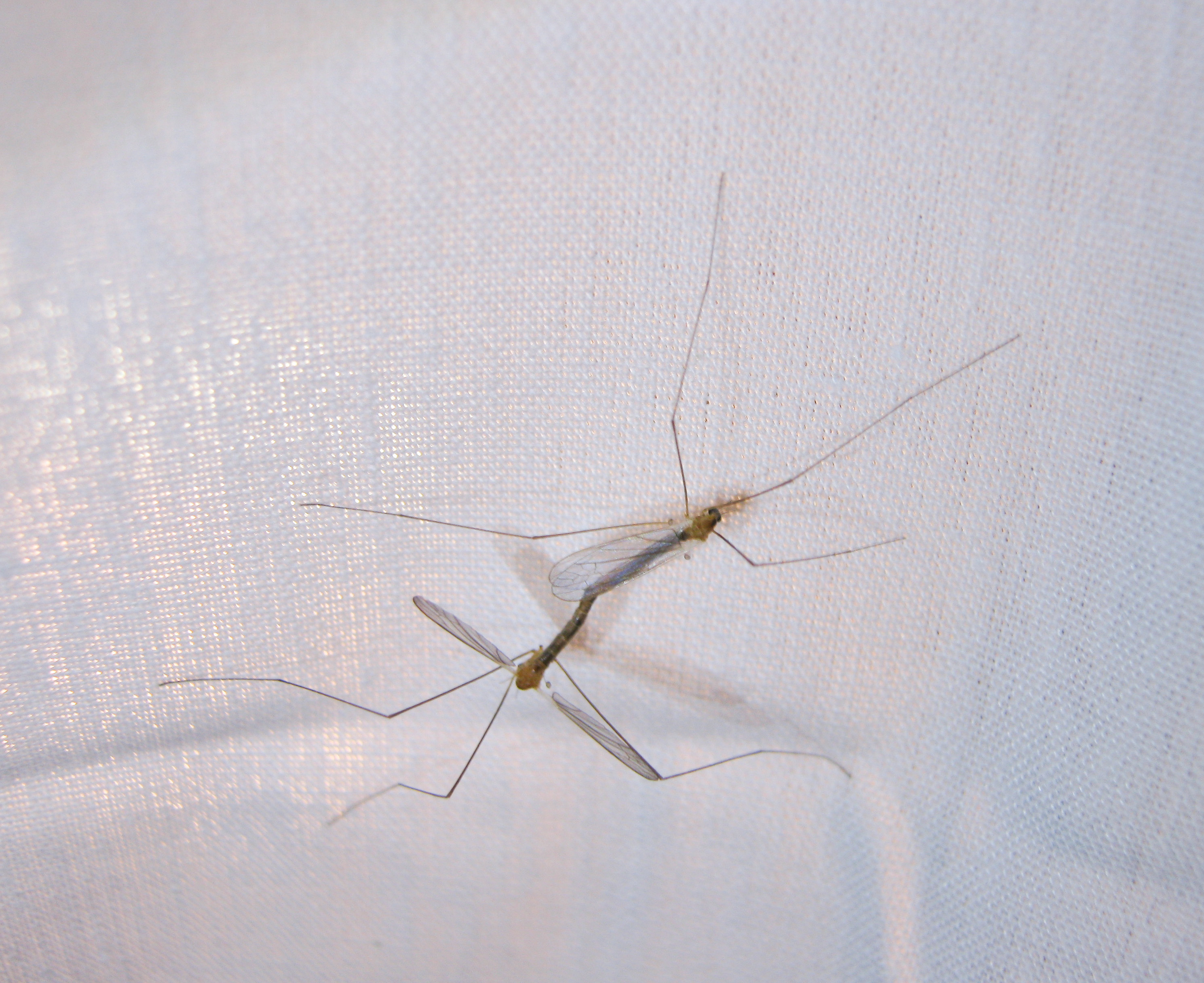 Antocha saxicola attracted to lights. Pocono Environmental Education Center, Pike County, Pennsylvania, USA.